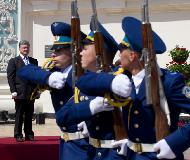 Petro Poroshenko presidential inauguration, 7th June 2014